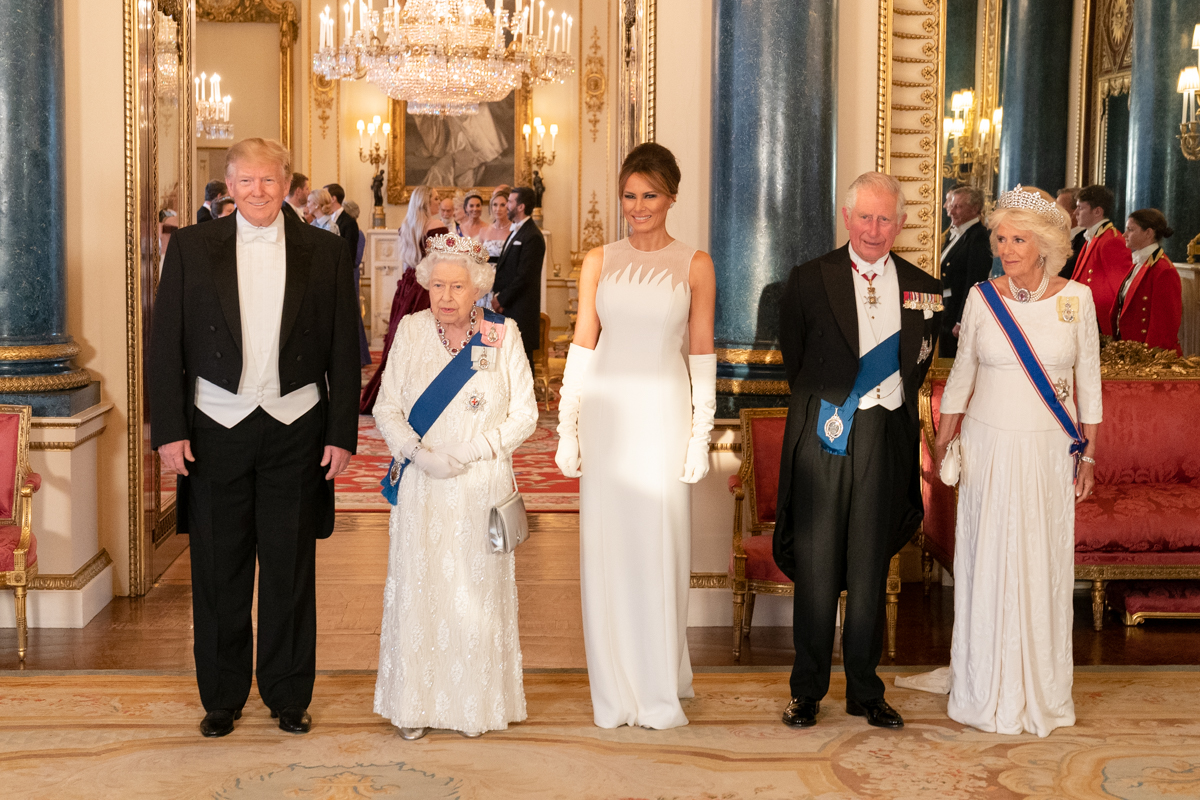 President Donald J. Trump and First Lady Melania Trump pose for a photo with Britain’s Queen Elizabeth II, the Prince of Wales and the Duchess of Cornwall Monday, June 3, 2019, prior to attending a state banquet at Buckingham Palace in London. (Official White House Photo by Shealah Craighead)